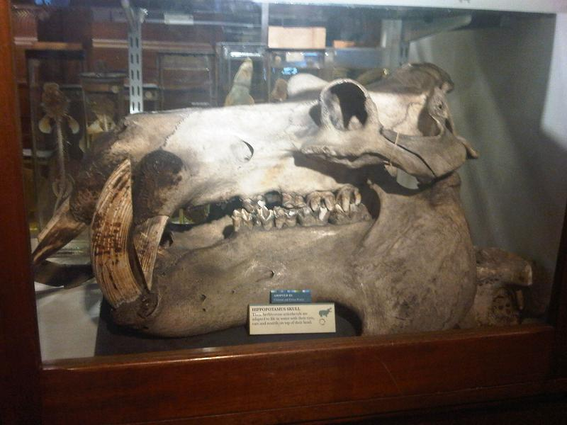 Hippopotamus (Hippopotamus amphibius) skull in Grant Museum of Zoology, London, England.